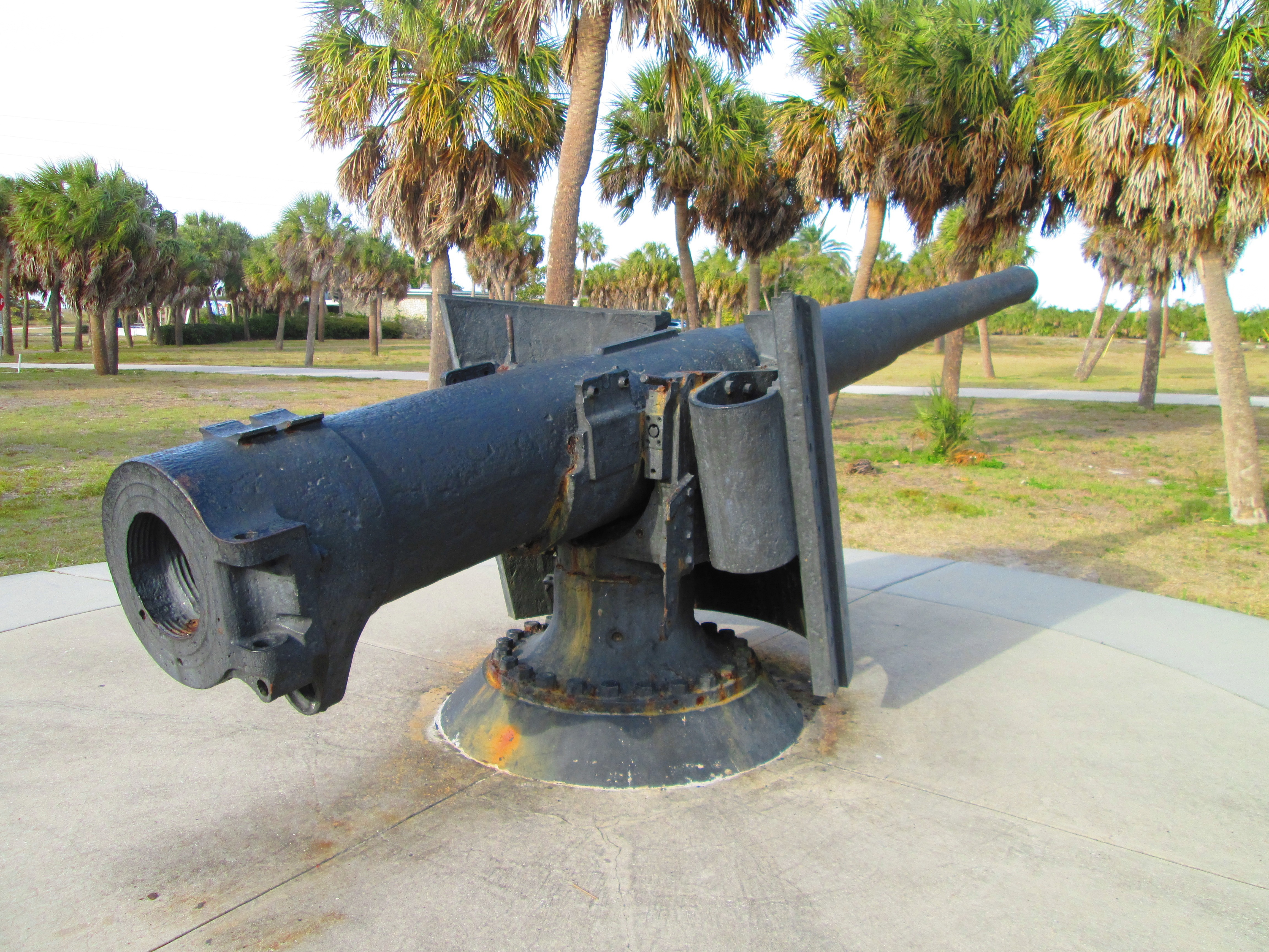 One of the two 6-inch 40-caliber rapid-fire Armstrong guns located at Fort De Soto Park. Originally located at Fort Dade on Egmont Key, the guns were refurbished and remounted at Fort De Soto in 1980, after it had been decommissioned and turned into a park. (Source: Fort De Soto Historic Guide)